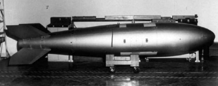 A U.S. Navy BOAR (Bombardment Aerial Rocket) nuclear weapon (30.5" Rocket MK 1 MOD 0) on a handling trolley.